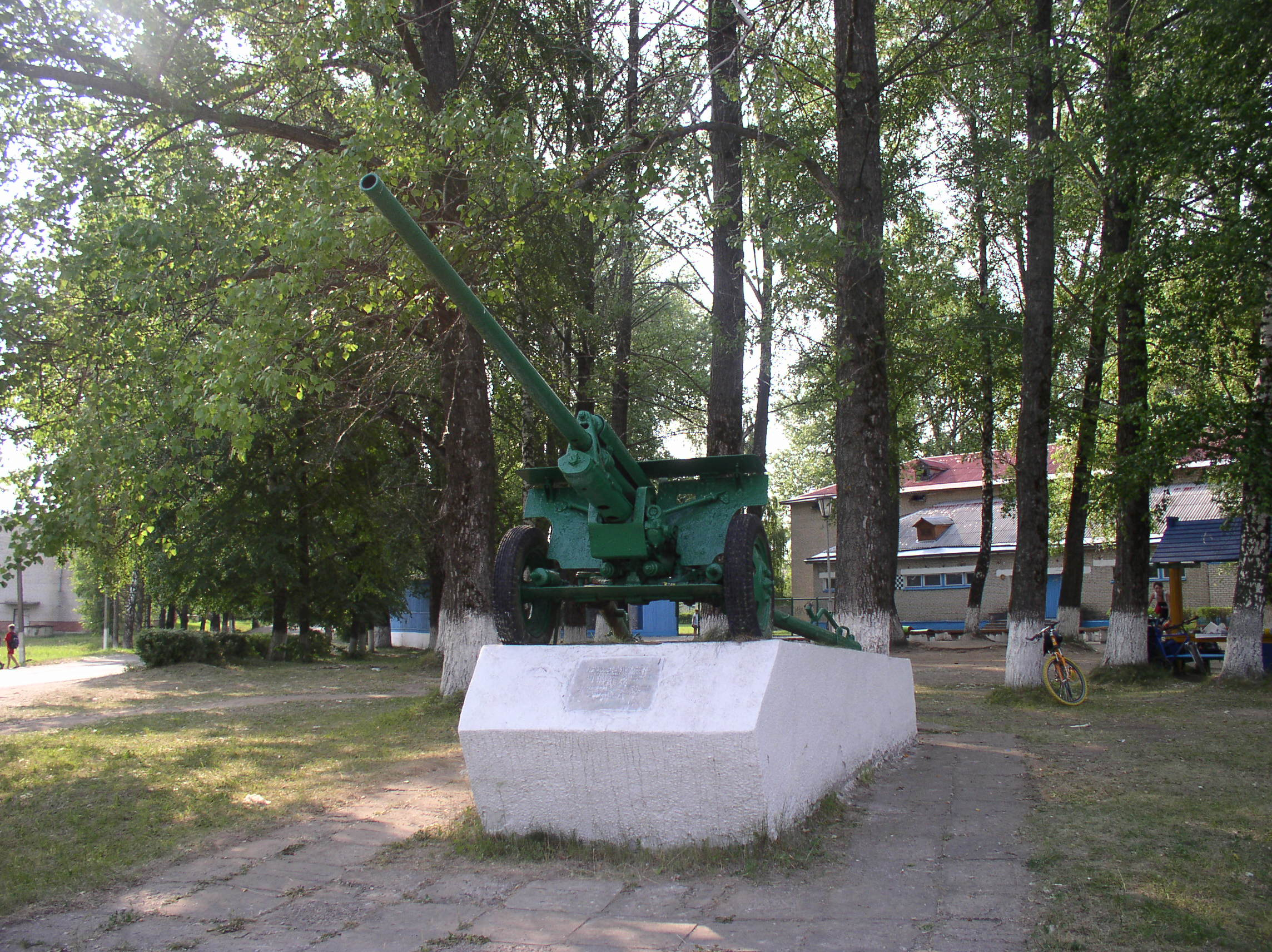 Cannon ZIS-2 57 mm - monument to liberators. Rasony, Belarus.